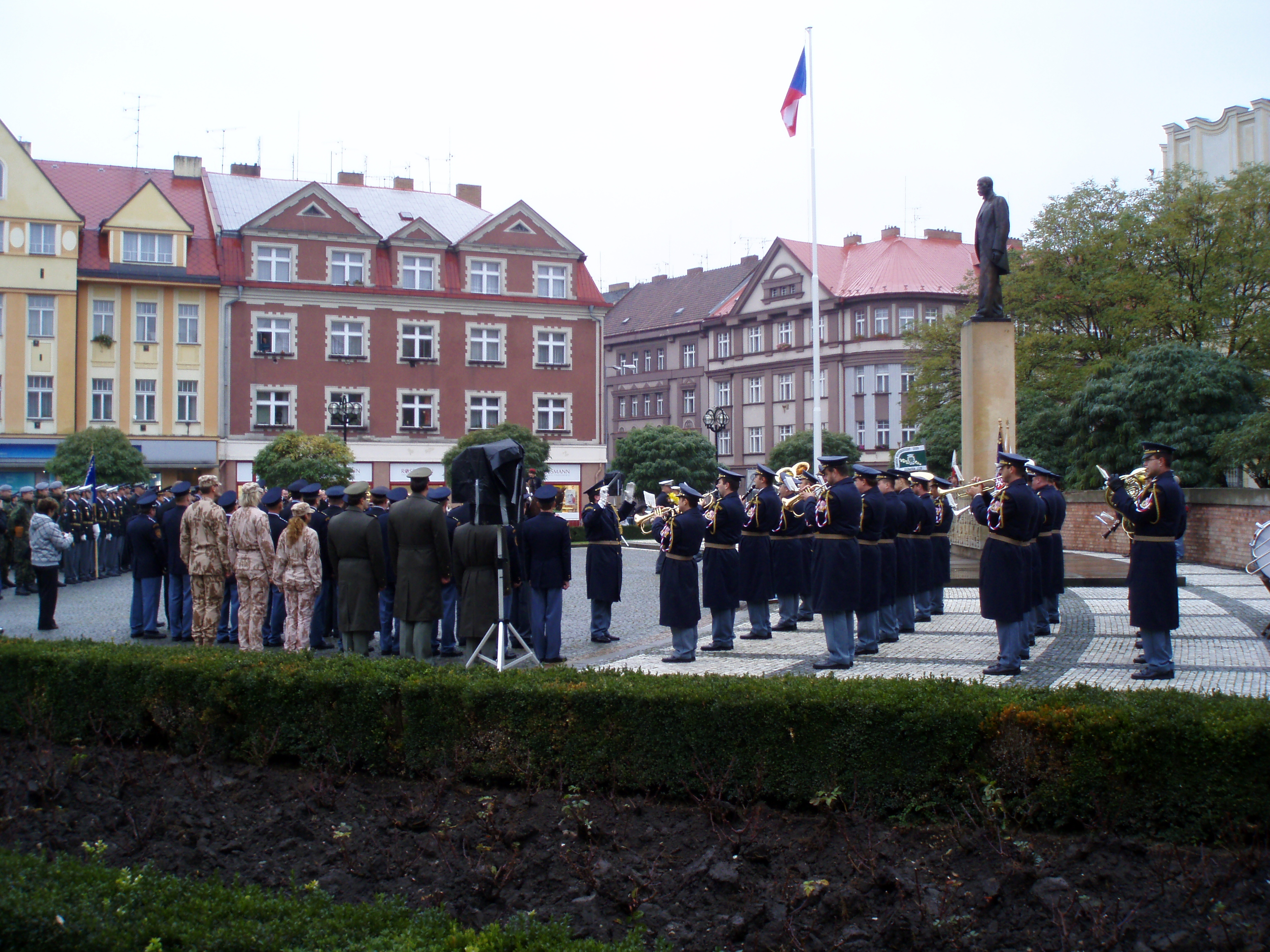 90th anniversary of the founding of Czechoslovakia (October 28, 1918)